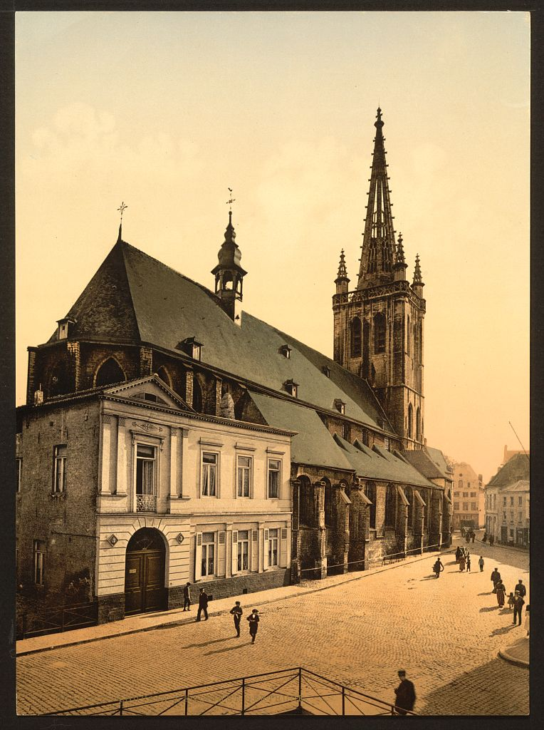 St. Gertrude Church, Leuven (Louvain), Belgium (ca. 1890-1900)